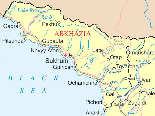 Map of Abkhazia. Modified by Iberieli Sources Primary: Secondary